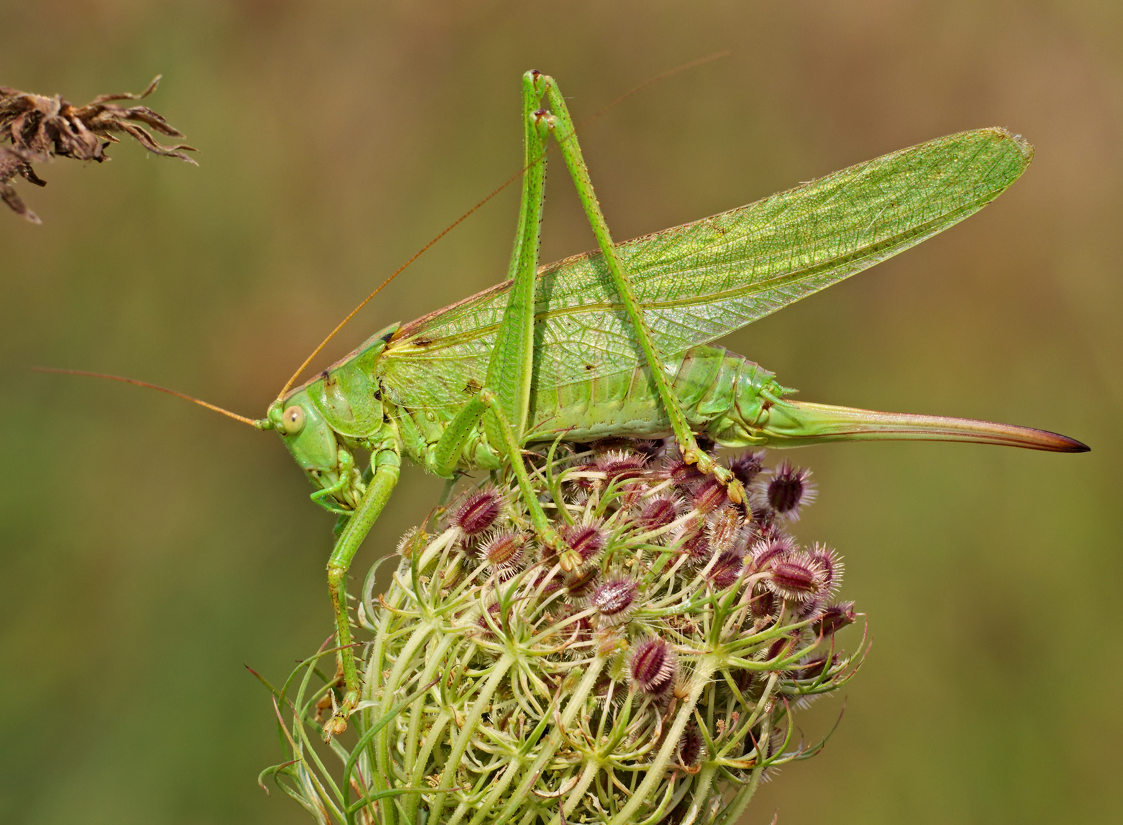 Great green bush-cricket - Tettigonia viridissima, female. Taken in Mannheim-Wallstadt-North, Baden-Württemberg, Germany.